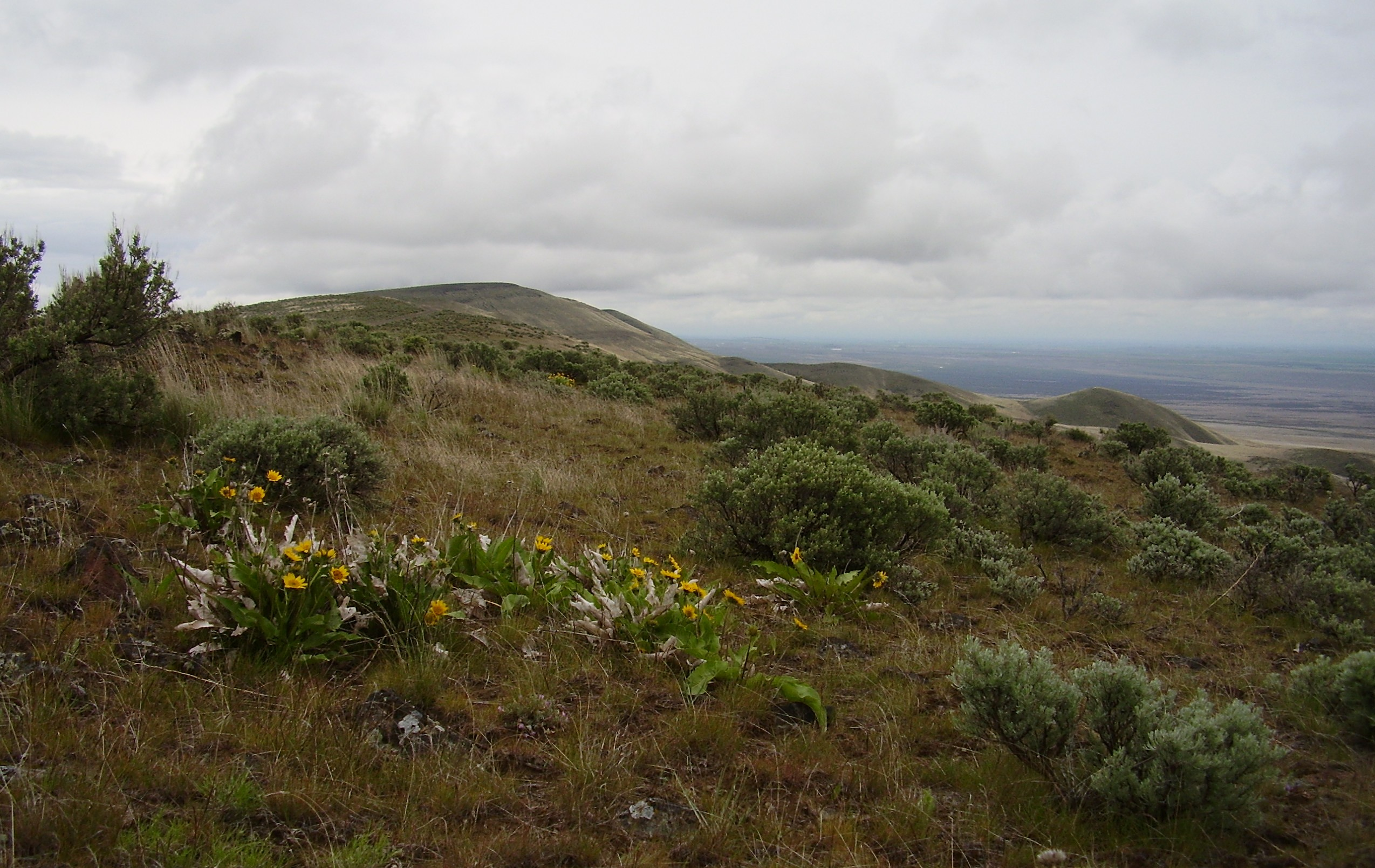 From the ridge of the Saddle Mountains in Washington state looking toward the east. Photo uploaded by photographer - taken in April 2007. All rights released. Williamborg 03:22, 15 April 2007 (UTC)